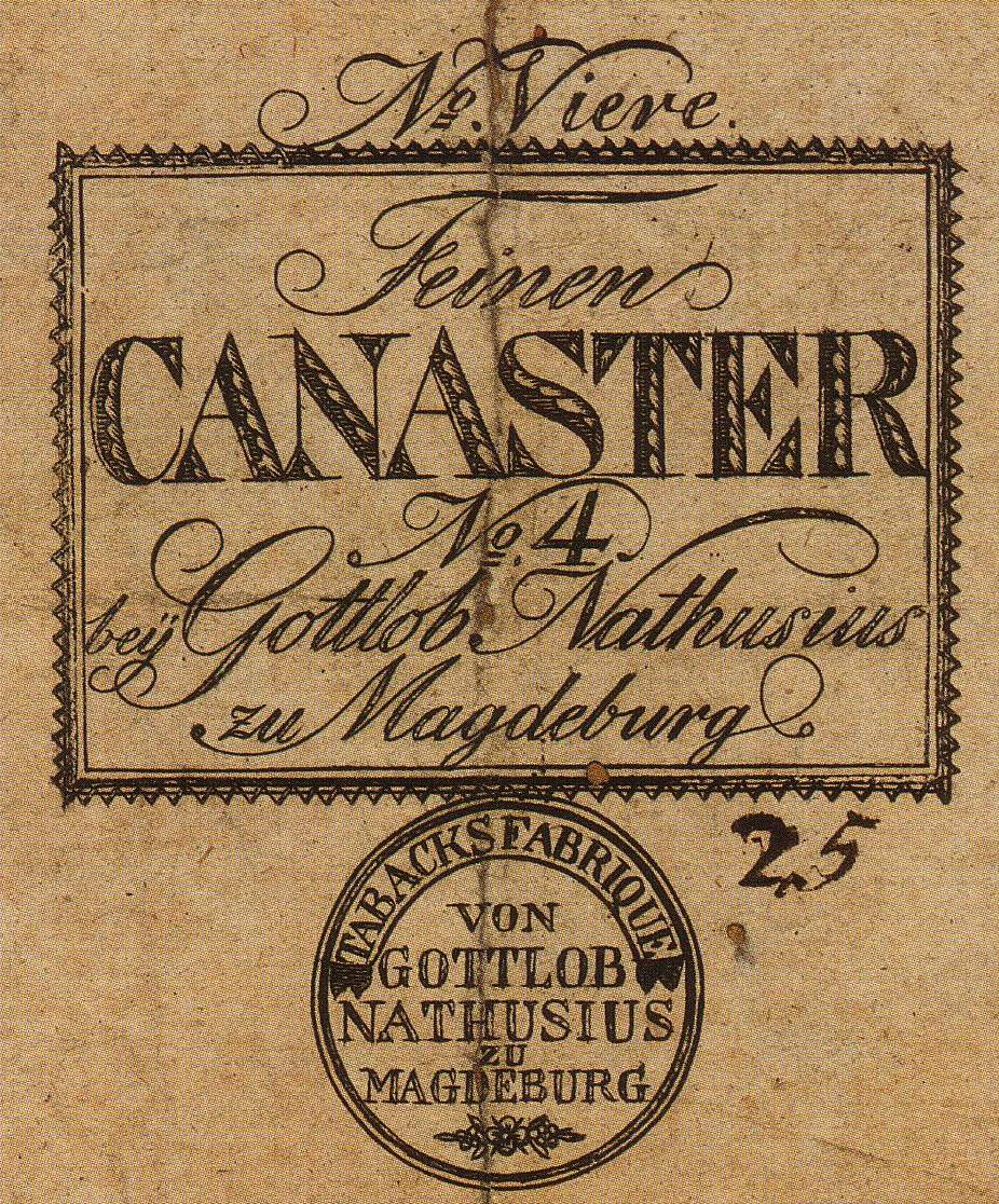 tobacco label, producer: Gottlob Nathusius